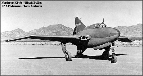 Northrop XP-56 Black Bullet